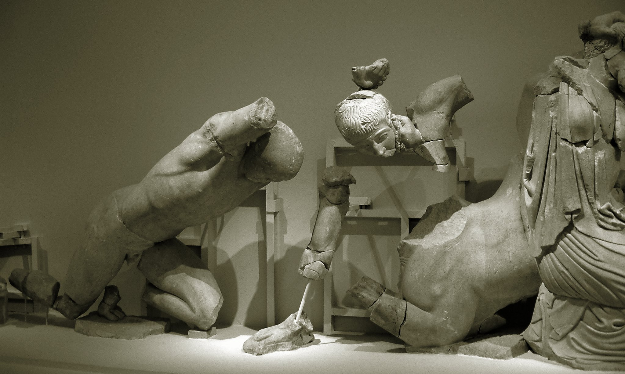 Sculptures from the west pediment of the Temple of Zeus at Olympia: Lapith, Centaur and Lapith woman. Olympia Archaeological Museum.